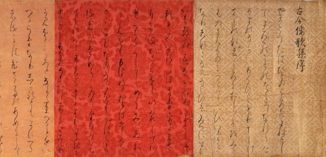 Preface to the Collected Japanese Poems of Ancient and Modern Times (古今和歌集序, Kokin Wakashū-jō)